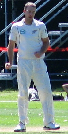 New Zealand cricket captain Daniel Vettori, after delivering a ball in a test match vs Pakistan, at the University Oval, Dunedin, New Zealand